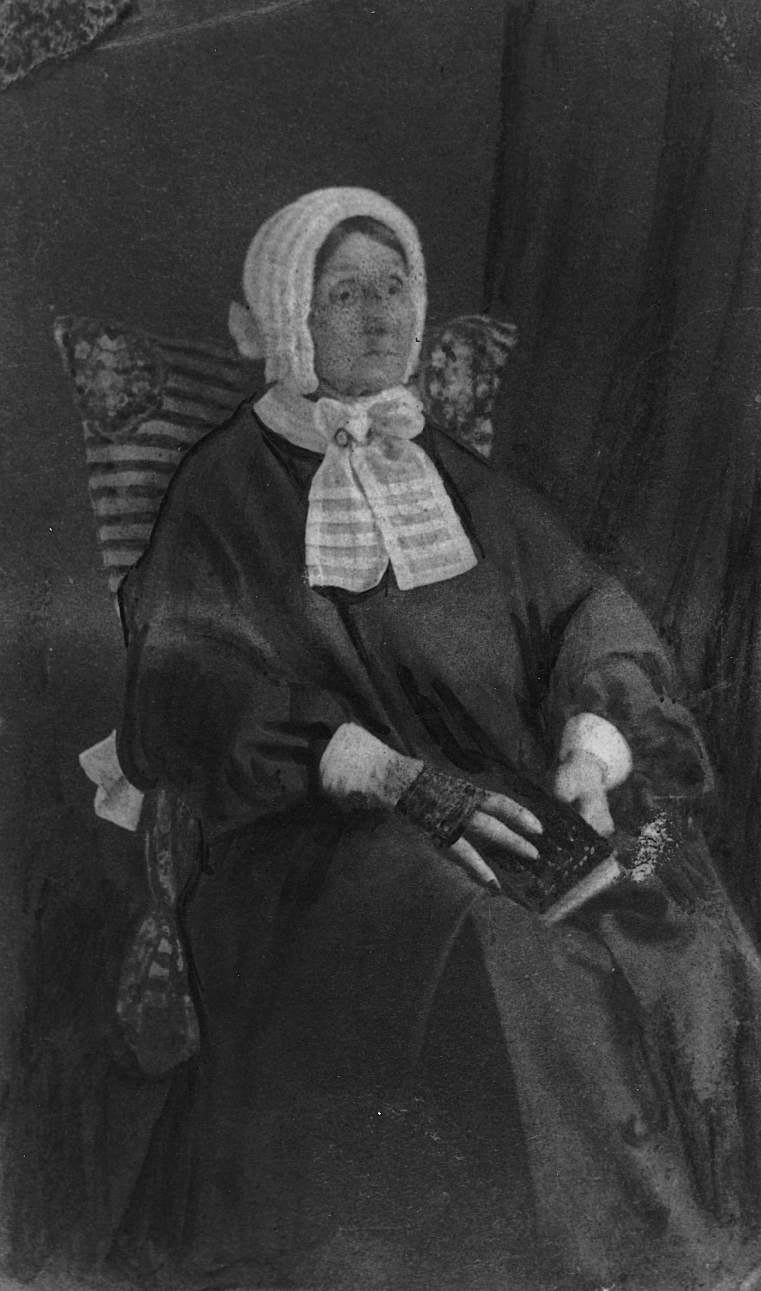 Photograph, Mrs. James Secord, about 1865, Anonymous, Silver salts, coloured ink on paper mounted on card - Albumen process - 8 x 5 cm